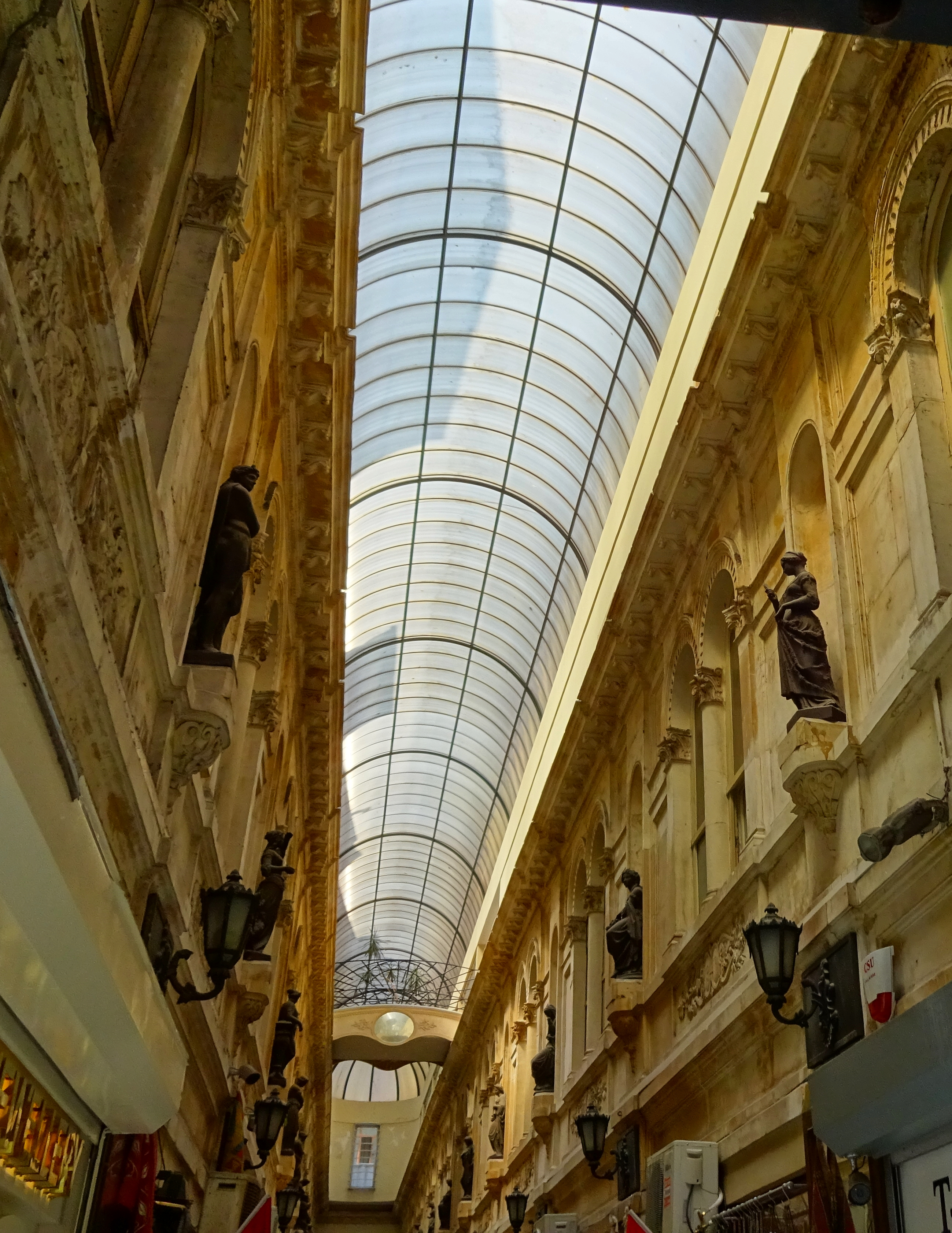 Shopping arcade Avrupa Pasajı, Hüseyinağa Mh., 34435 İstanbul, Turkey